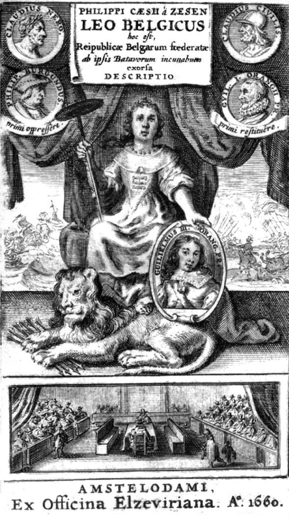 Title page Leo Belgicus (Belgick Lion) History book